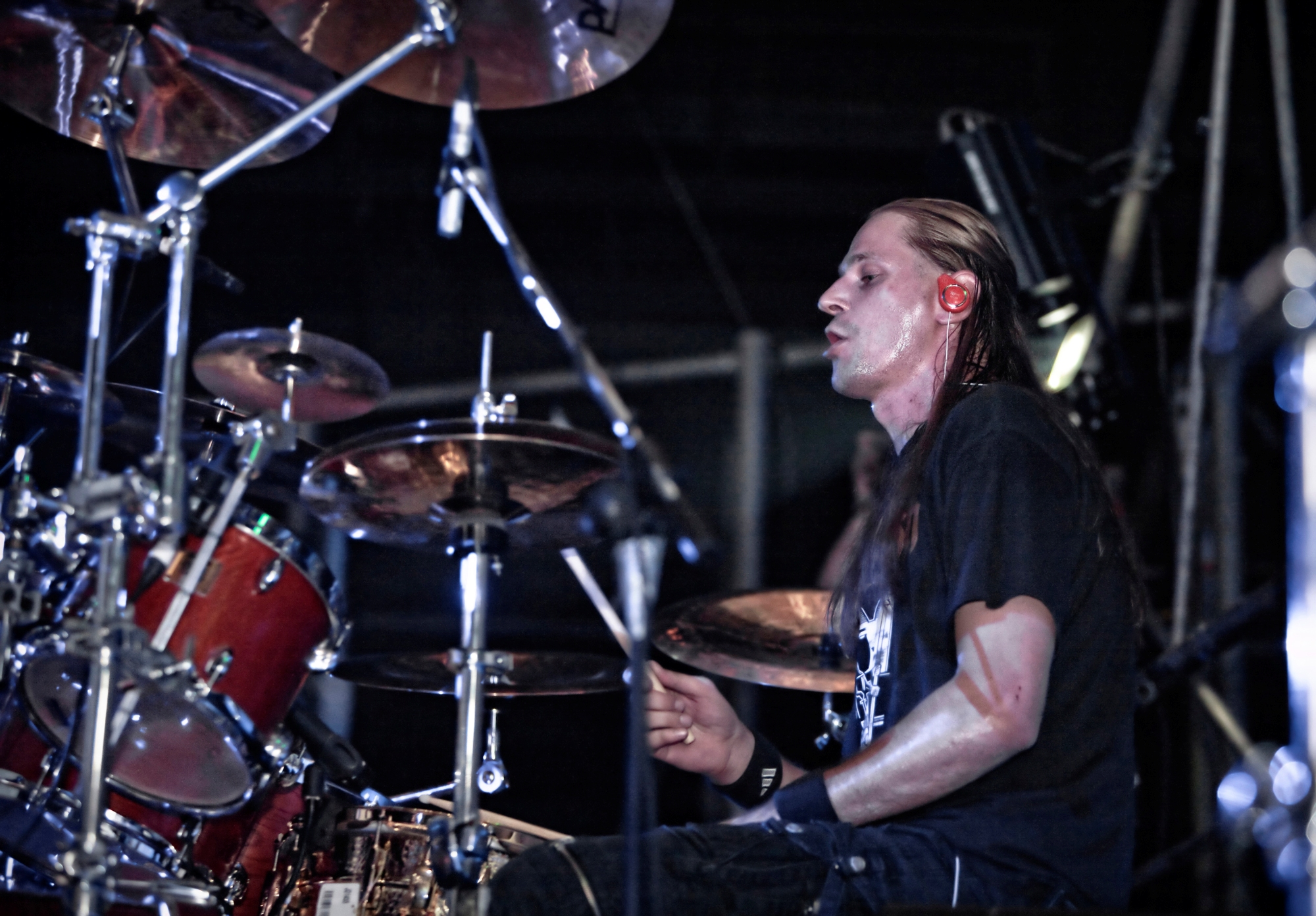 Khaoth